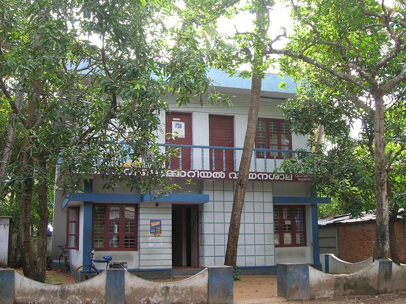 Gurudeva Memorial Library, Vavakkad